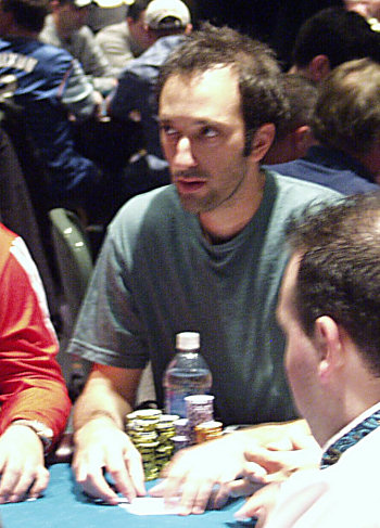 Bill Gazes at the WPT 2005 World Poker Finals at the Foxwoods Resort Casino